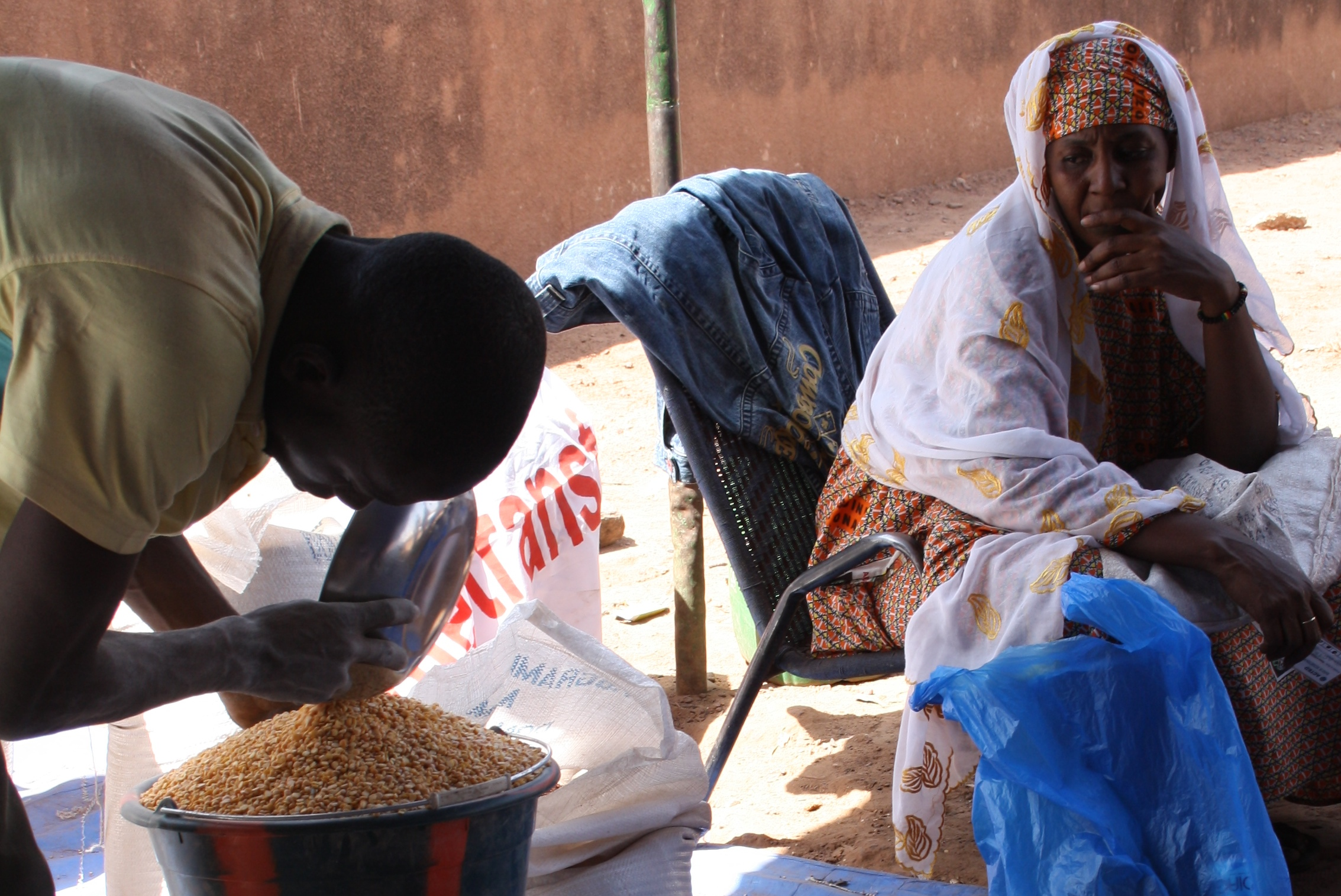 Hawa Maiga, 45, is just one of thousands of people that are currently internally displaced within Mali. She sits patiently with around 100 other men, women and children, at a WFP-organised food distribution site in central Bamako. Her husband died a few years ago, so she is now the head of a family of 22, including her children, her sister's family and other relatives. Although she can just about manage to pay rent, water and electricity thanks to her late husband's small pension, she would struggle to feed all these mouths as well. UK aid, through the World Food Programme (WFP) is enabling Hawa and thousands more to survive the very real affects brought on by Mali’s conflict. Hawa comes from Gao, one of Mali’s northern towns that has been acutely affected by conflict in recent times. Even in February this year, violent clashes occurred between rebel fighters and French and Malian forces, making life in Gao unbearable. “I really want to return to my home but I cannot. Fighting is continuing, even to this day - it is too dangerous. The protection of my loved ones is my only priority.” Britain was one of the first countries to respond directly to the recent escalation in violence, and is supporting tried and trusted humanitarian agencies to provide food, urgent medicine and clean water inside Mali, as well as provide a comprehensive package of support to refugees in Burkina Faso, Mauritania and Niger. Photo: Derek Markwell/DFID